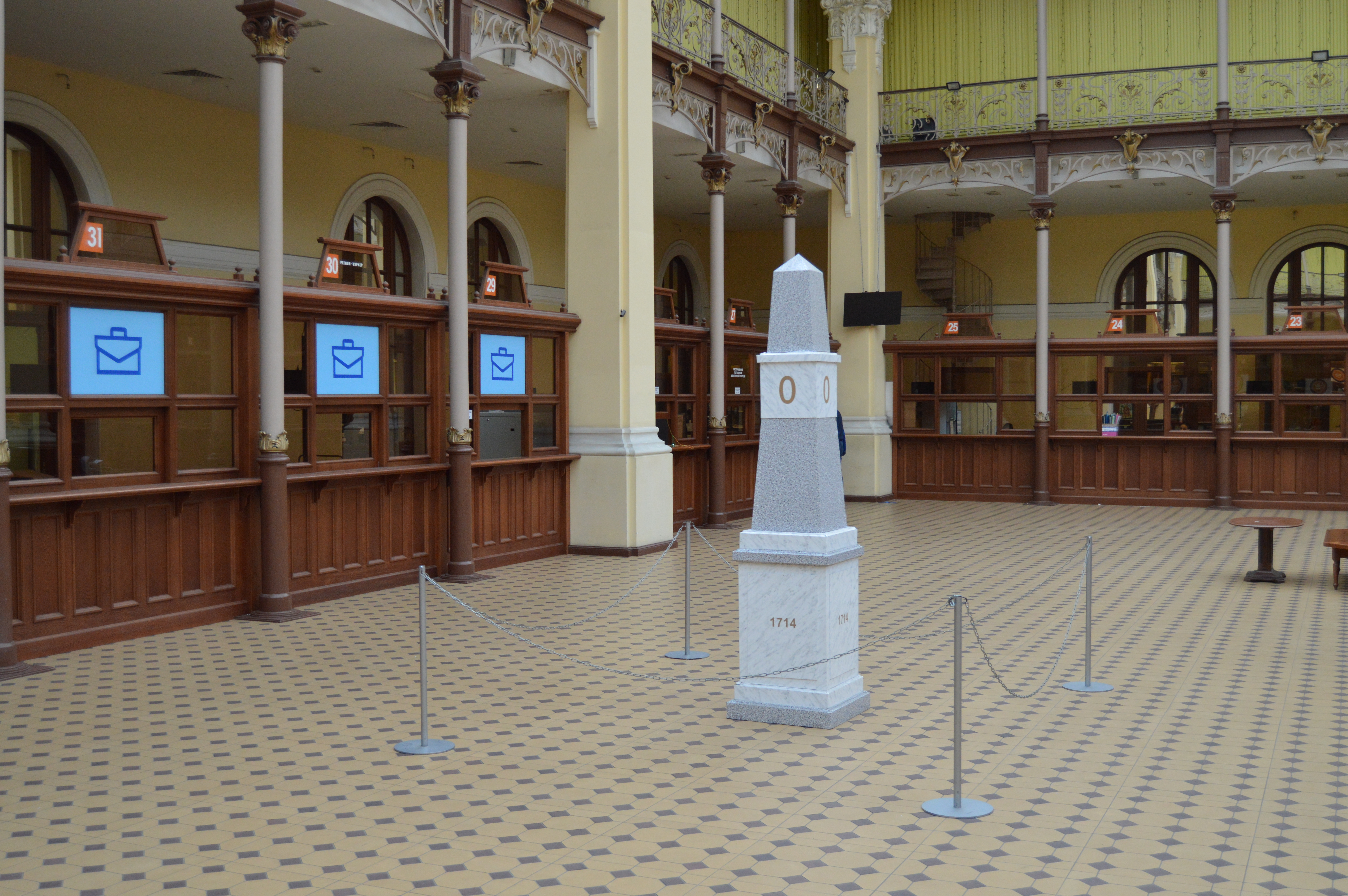 Saint Petersburg Main Post Office - Kilometre Zero pole inside the office.